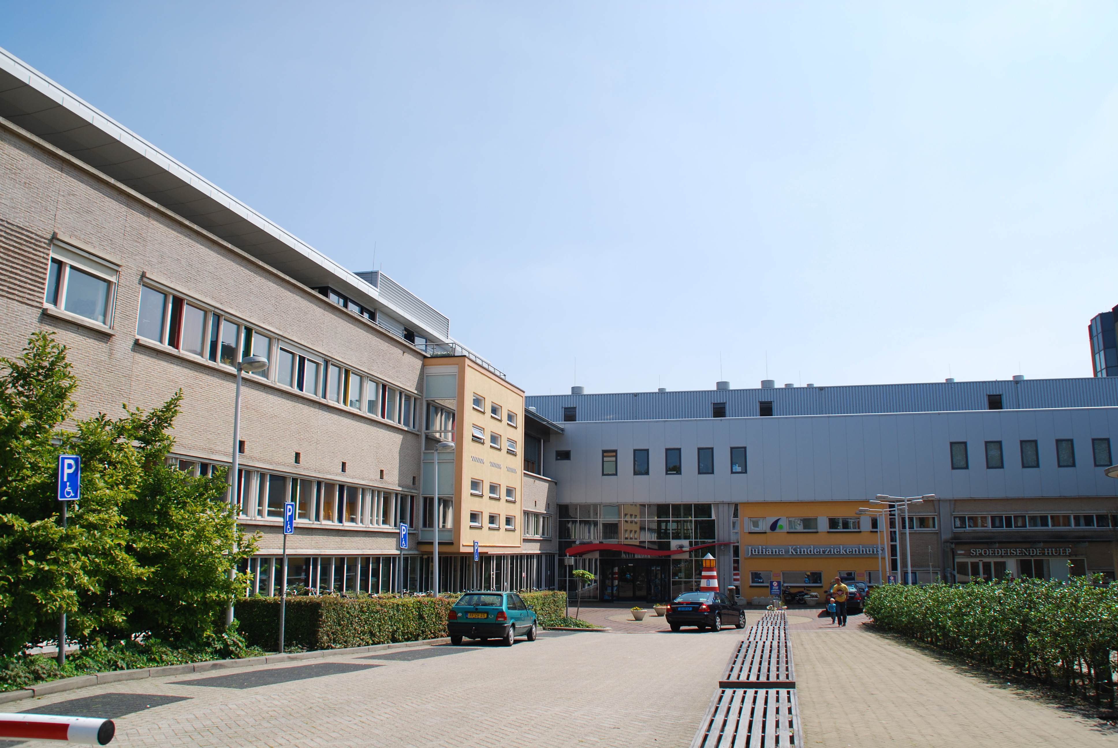 Juliana Kinderziekenhuis, The Hague